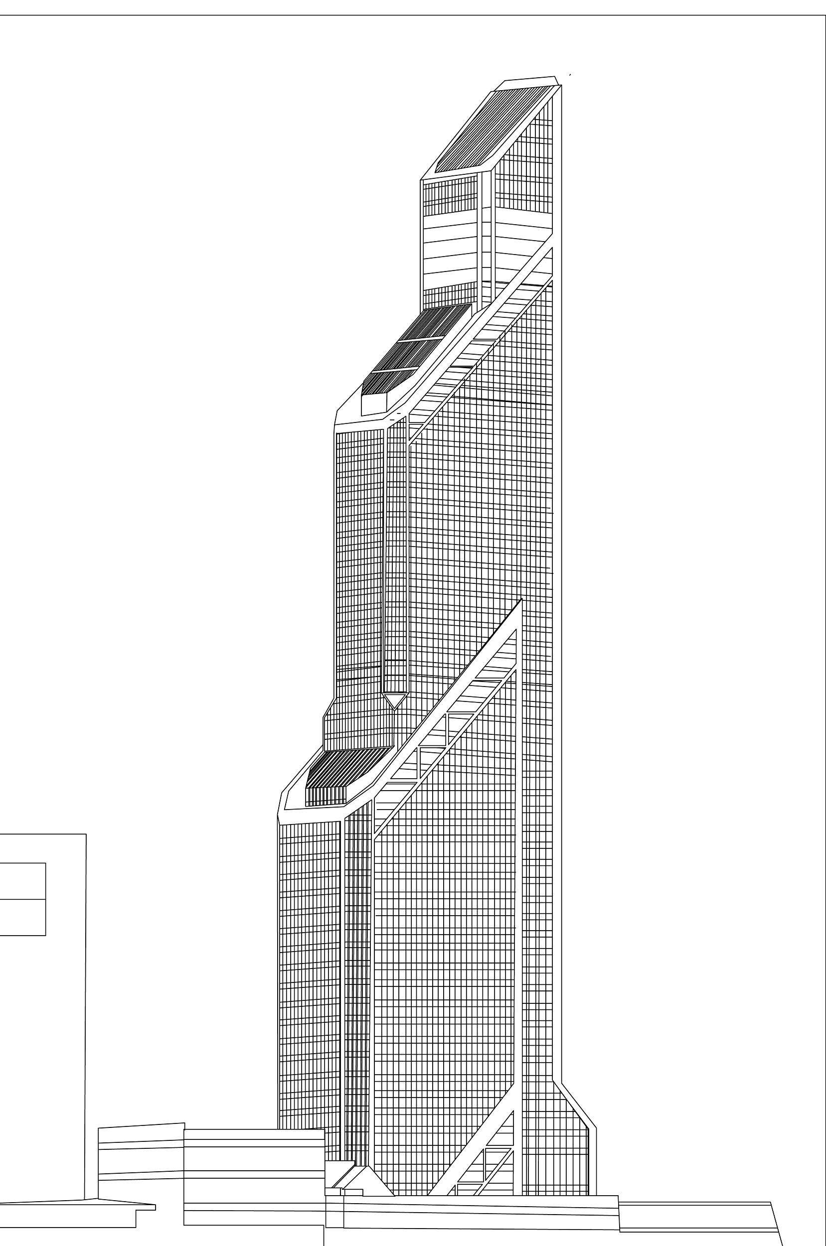 Mercury City Tower in Moscow, made in AutoCAD